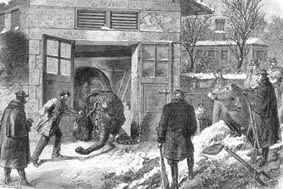 One of the elephants from the zoo in Paris being killed for meat during the Siege of Paris 1870.